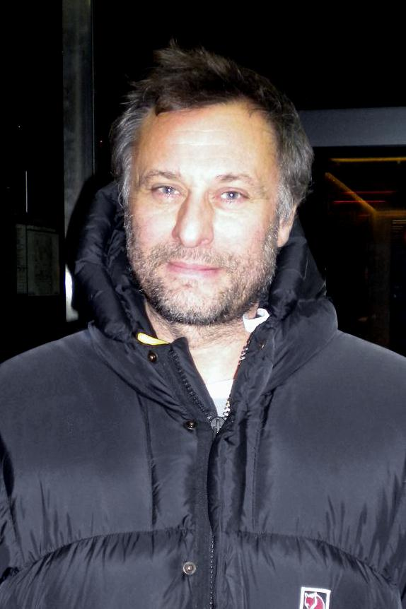 Swedish actor Michael Nyqvist, as released by image creator CabarEngPlace: Scandic Malmen Hotel, Götgatan, Southern Isle, Stockholm, Sweden